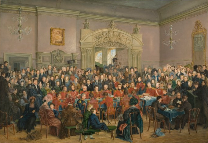 Rolinda Sharples The Trial of Colonel Brereton